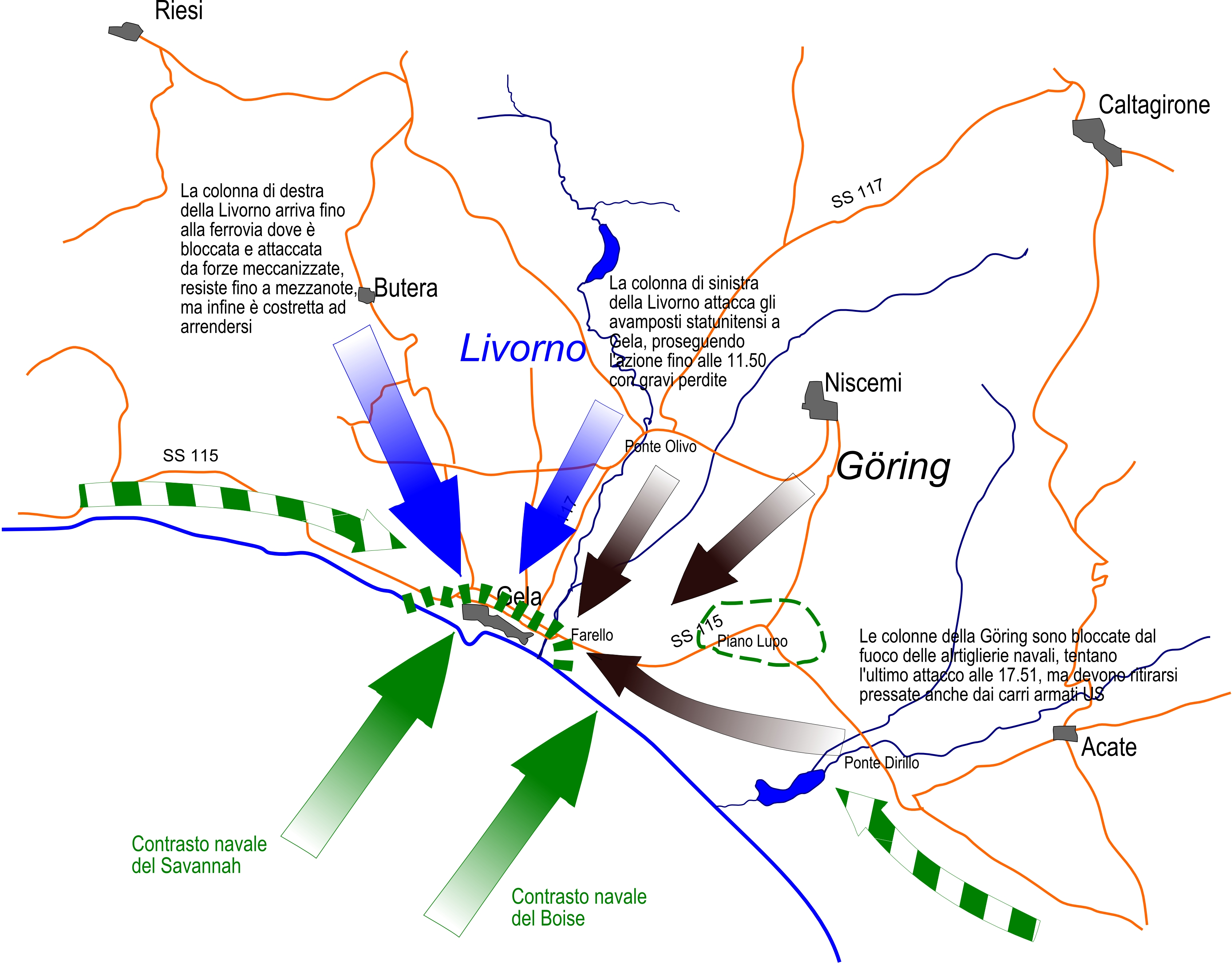 The counterattack of Italian and German forces on the Gela beachhead during te Sicilia invasion (July, 11, 1943)